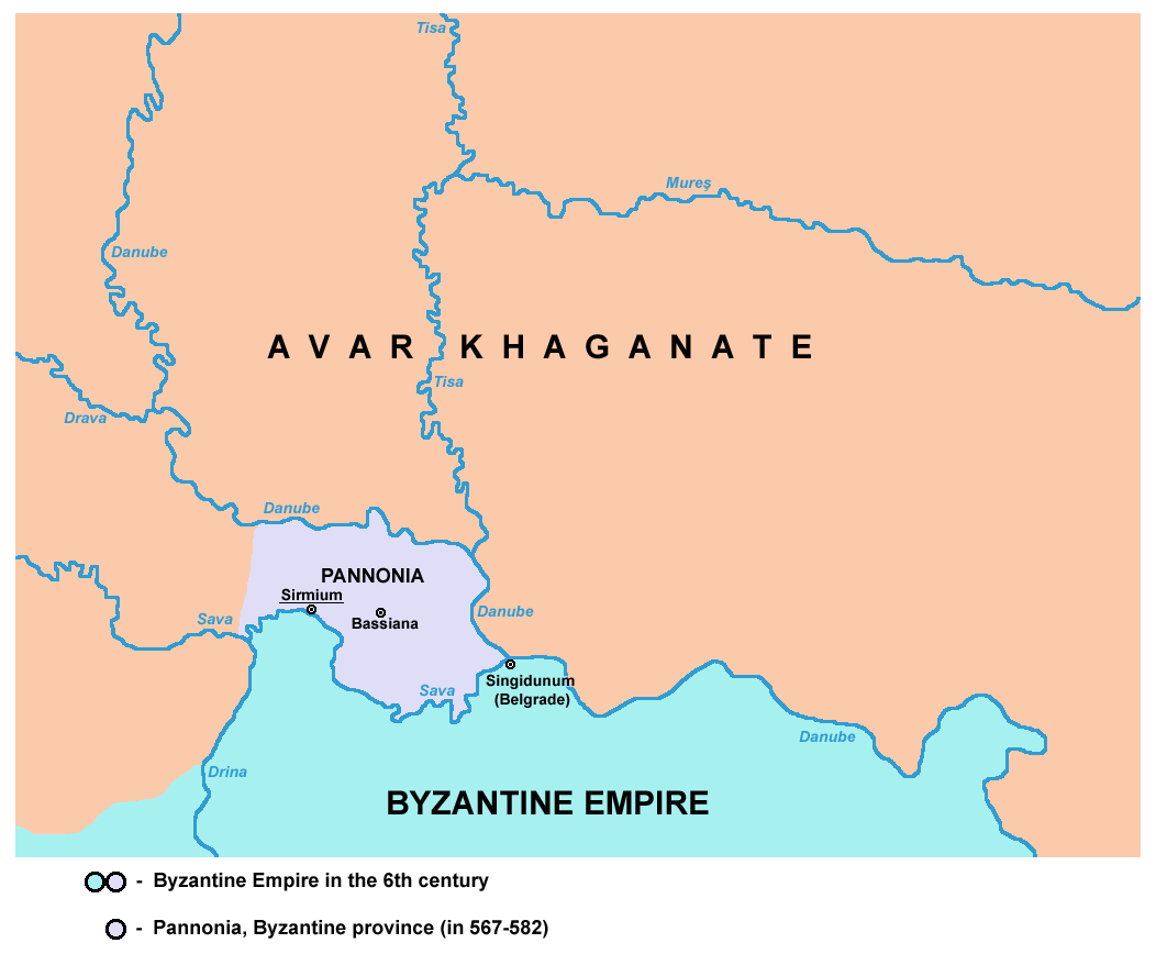 Pannonia, Byzantine province, 6th century (567-582).